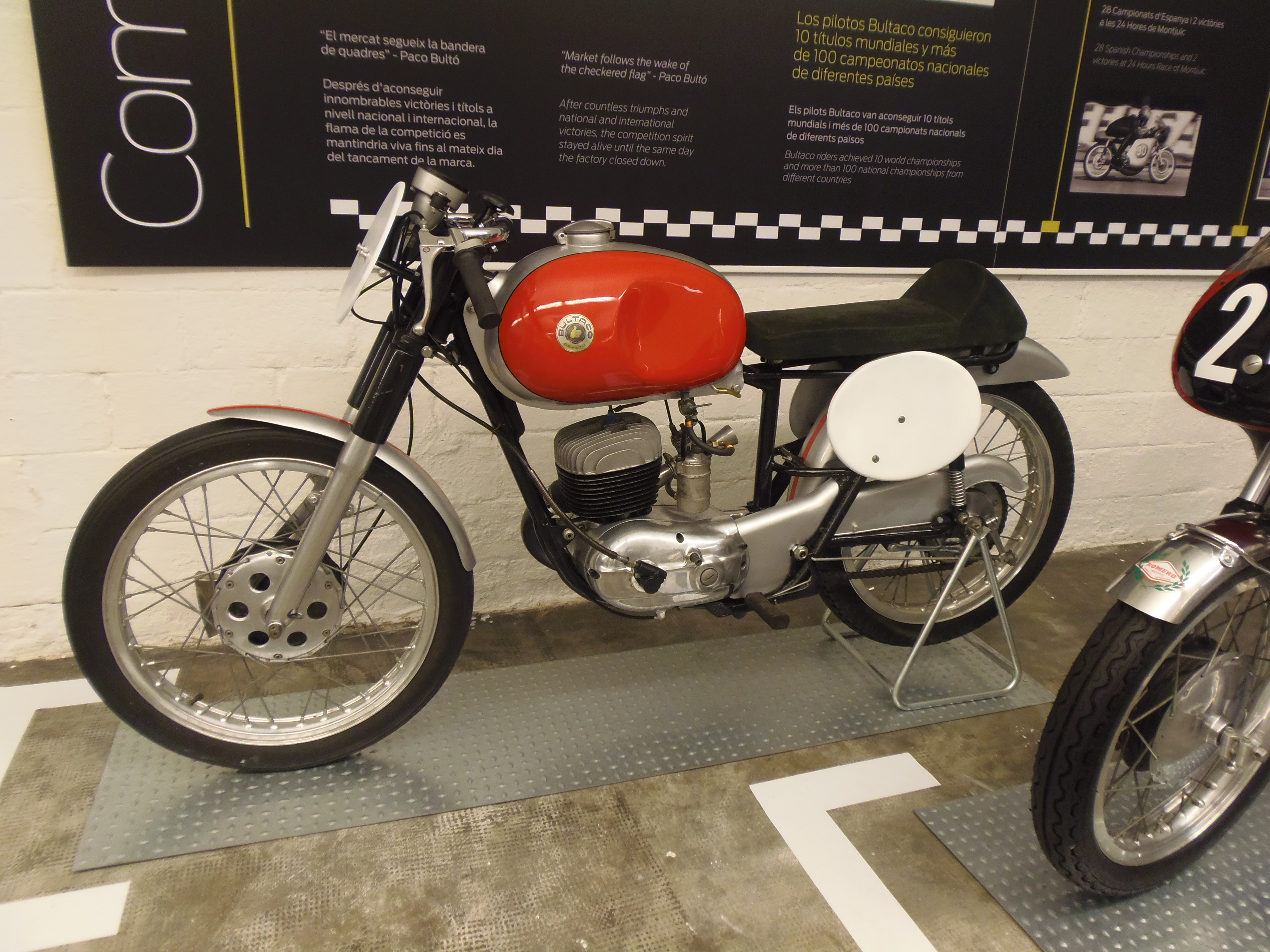 Bultaco Tralla TS, 125 cc, 1959. Named as "TS" for "Tralla Sport".